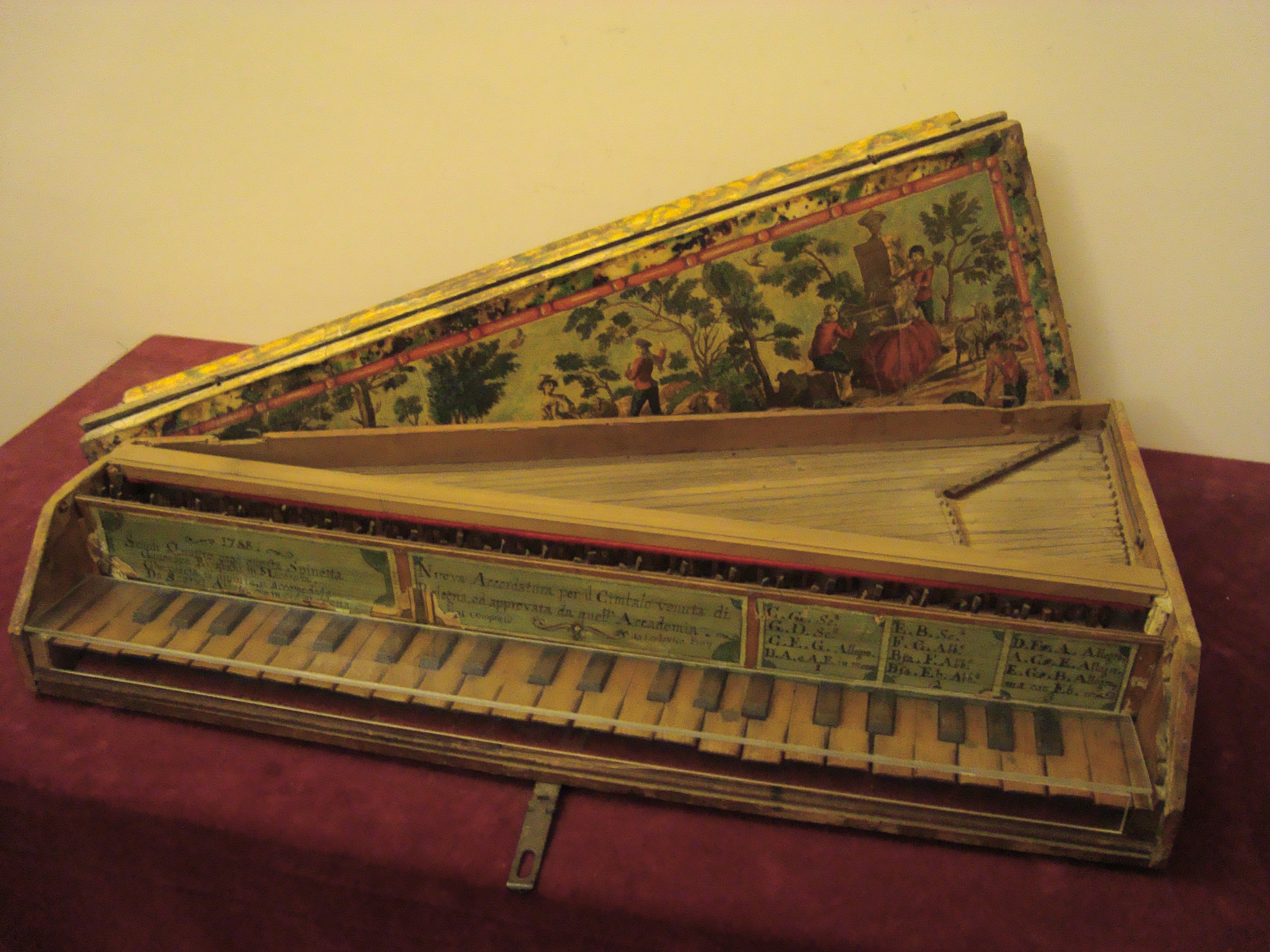 Little spinet from 1778, probably made by G. Barbarani, Macerata. Collections Museo Nazionale degli Strumenti Musicali di Roma